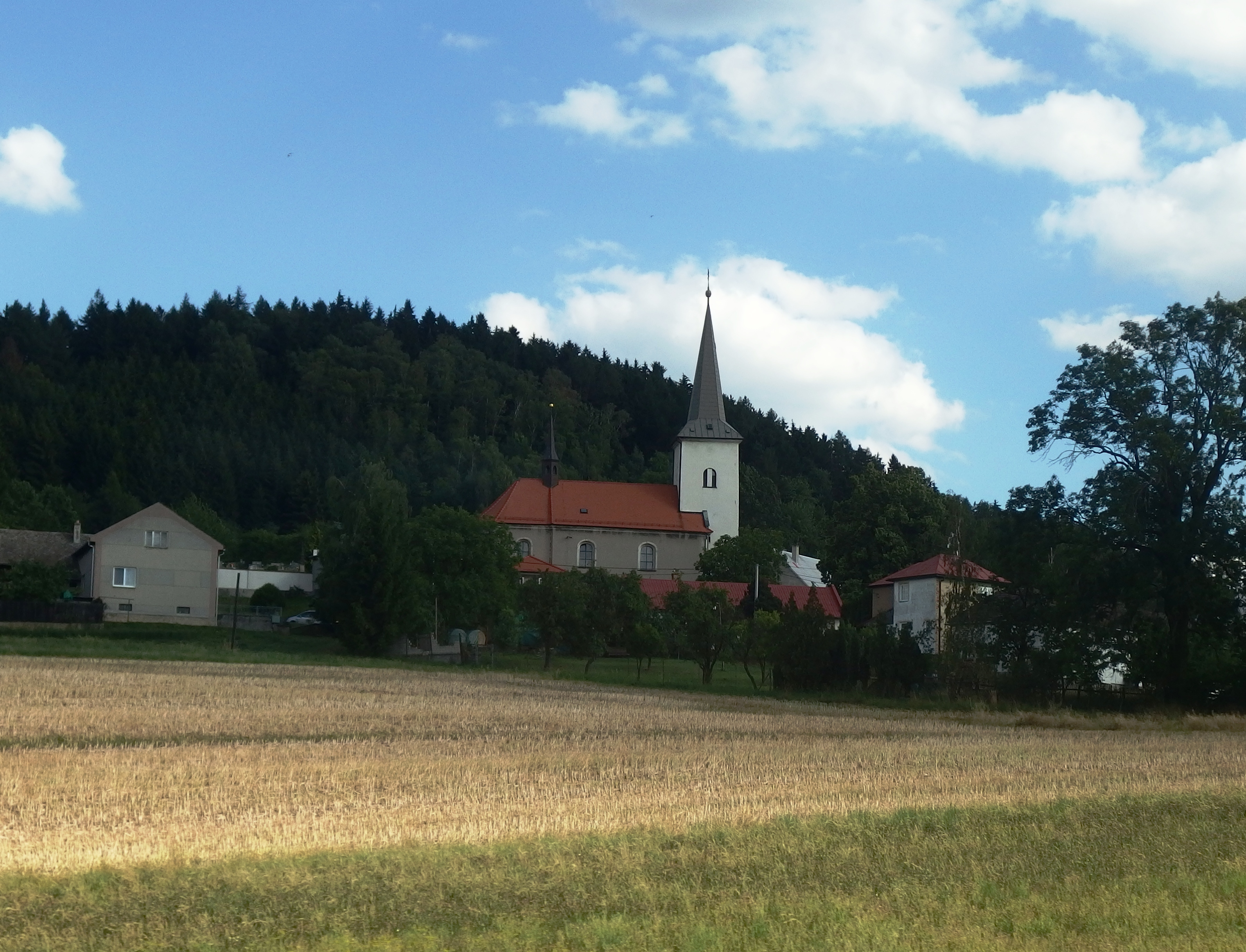 Bystřice pod Hostýnem, Kroměříž District, Czech Republic, part Bílavsko. Church of Saint Bartholomew.